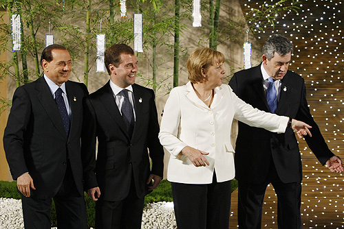 TOYAKO-ONSEN, HOKKAIDO, JAPAN. During a meeting with representatives of the Youth G8. With Italian Prime Minister Silvio Berlusconi, German Federal Chancellor Angela Merkel and British Prime Minister Gordon Brown.